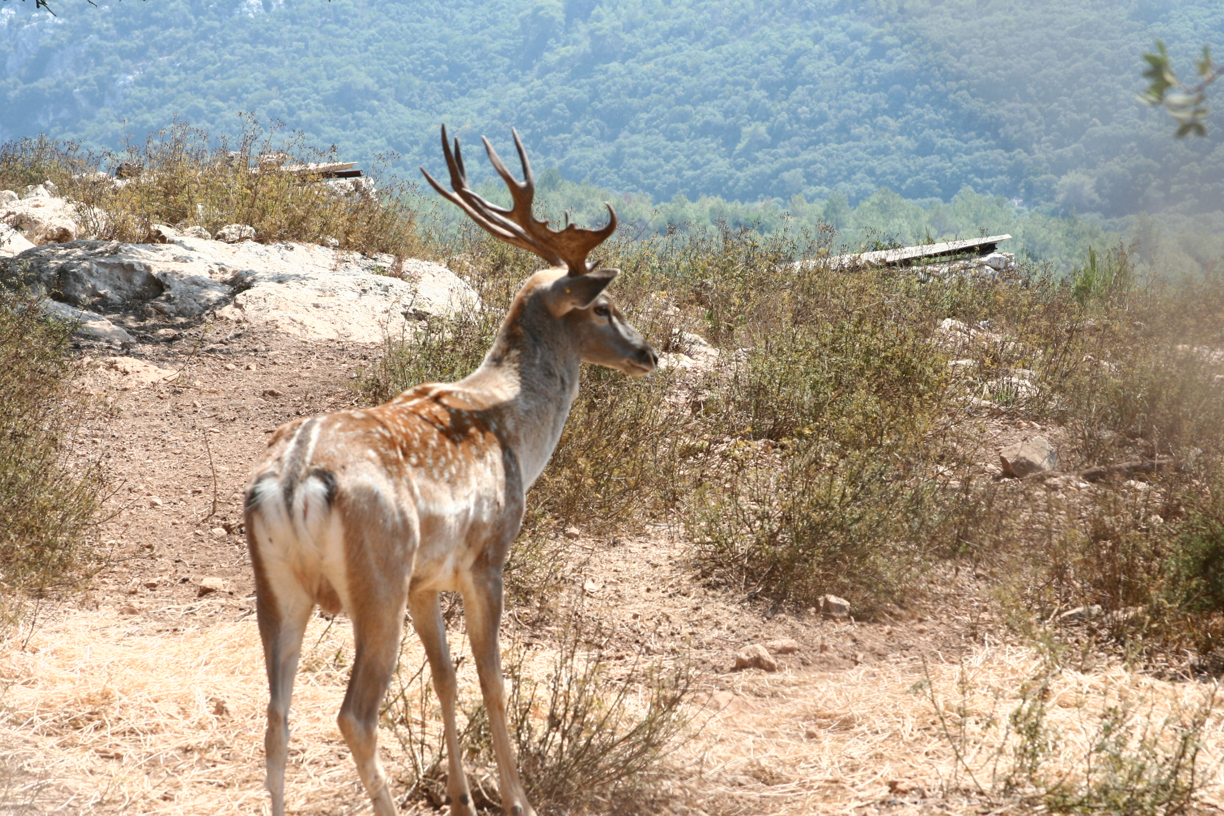 Persian Fallow Deer in the Carmel mountain, Israel